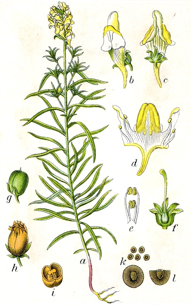 Linaria vulgaris subsp. vulgaris, syn. Antirrhinum linaria L. Original Description Frauenflachs, Antirrhinum linaria